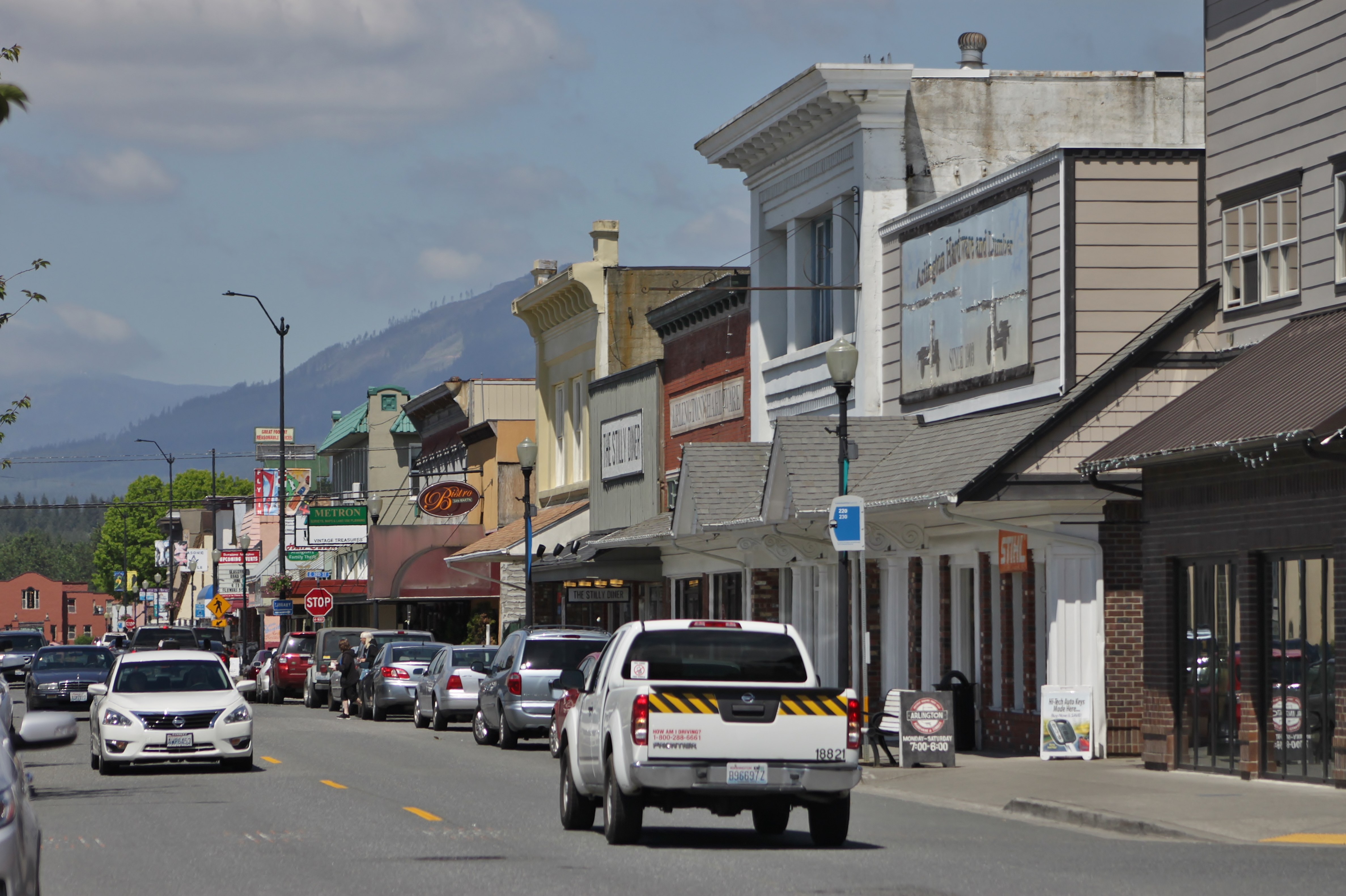 Looking north on Olympic Avenue in downtown Arlington, from E 2nd Street.